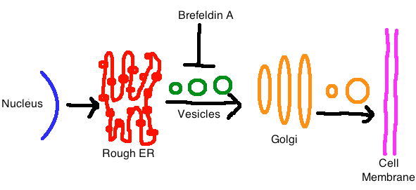 Simplified rough diagram showing that Brefeldin A prevents vesicle transport from the endoplasmic reticulum to the Golgi apparatus within the cell.